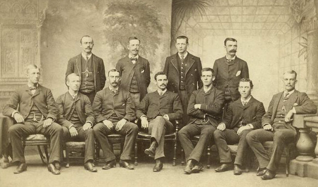 Boston Base Ball Club, 1883; National League. This studio portrait of the 1883 National League Champion Beanearter Club shows the members who helped the city of Boston regain the championship, its first since 1878. Unfortunately there was no on-field championship between the National League and American Association in 1883. Back row L-R: Joe Hornung, LF; Ezra Sutton, 3B; Sam Wise, SS; Jack Burdock, 2B. Front row L-R: Charlie Buffinton, P; Paul Radford, RF; Jim Whitney, P; John Morrill, 1B; Mike Hines, C; Mert Hackett, C; Edgar Smith, CF. Players identified by David Nemec.